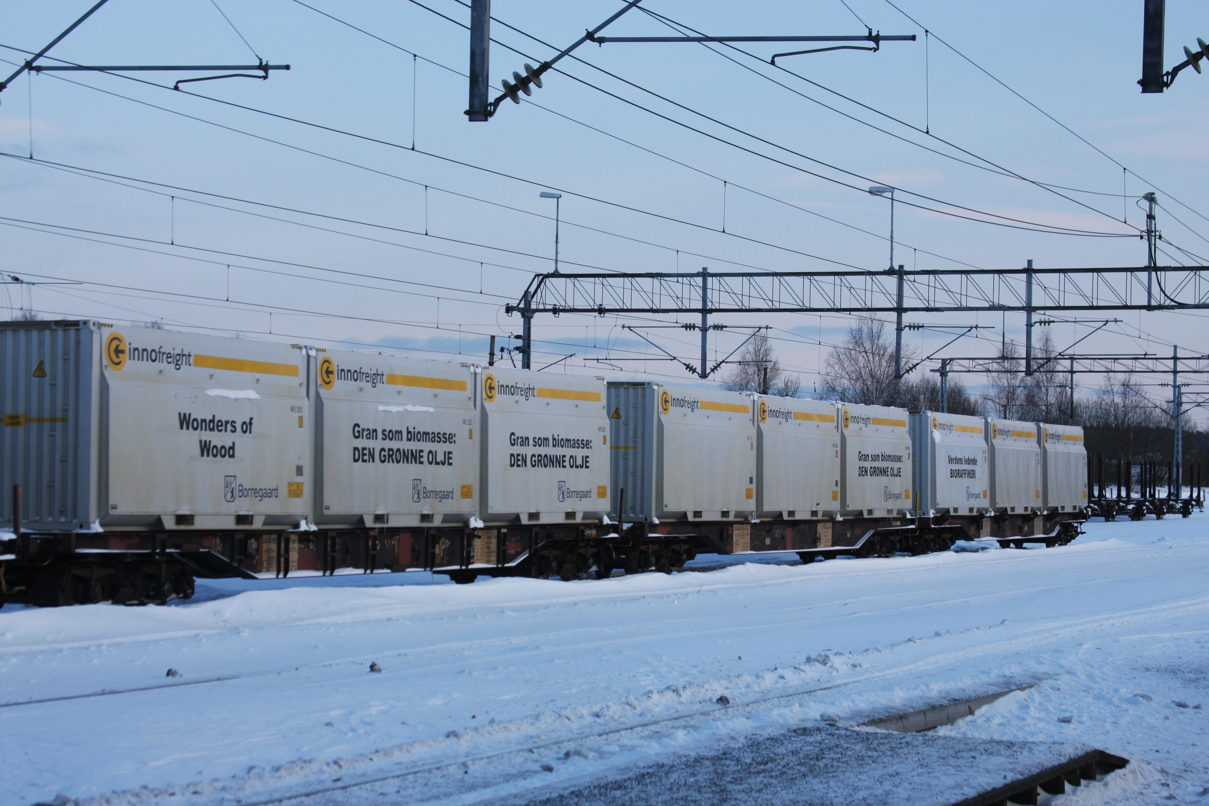 Cargo train containing spruce-based biofuel from Borregaard factories, Sarpsborg railweay station.